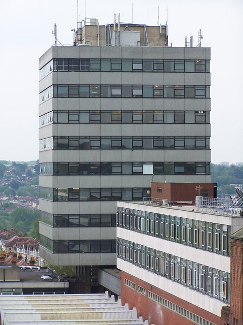 Faraday Tower, University of Southampton Viewed from the new Education, Engineering and Entrance building